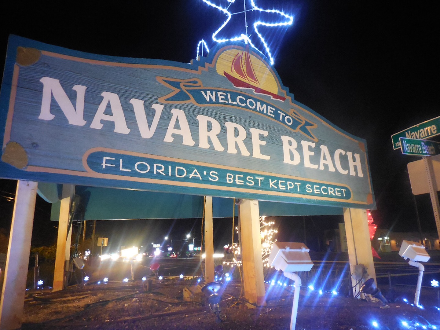 The welcome to Navarre Beach sign in Navarre, Florida with Christmas decorations.